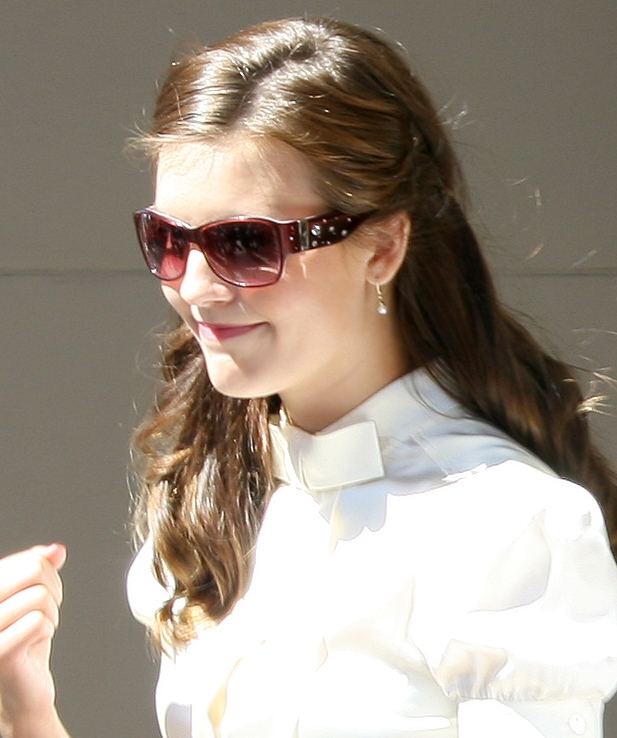 Maggie Grace at the 2007 Toronto International Film Festival